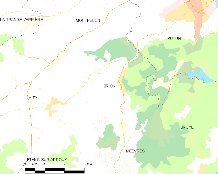 Map of French municipality